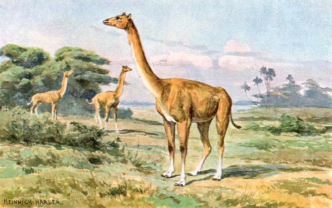 This Painting of Aepycamelus (formerly Alticamelus) was made to illustrate one card of a set of 30 collector cards from "Tiere der Urwelt" (Animals of the Prehistoric World). From the Series III. Das Gemälde von Aepycamelus (früher Alticamelus) wurde zur Illustration einer Karte aus einem Set von 30 Sammelkarten mit dem Titel „Tiere der Urwelt“ angefertigt. Aus der Serie III.